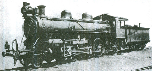 Builder's photo of a Tehosa-class locomotive built by the American Locomotive Company in 1911 for the Chosen Government Railway.